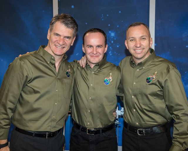 Paolo Nespoli of ESA (European Space Agency), Sergey Ryazanskiy of the Russian space agency Roscosmos, and NASA astronaut Randy Bresnik, who are scheduled to launch to the International Space Station in late spring, participated in a news conference Jan. 25, at the agency’s Johnson Space Center in Houston. This will be Bresnik’s second trip to the space station, the second expedition for Ryazanskiy, and Nespoli’s third trip to the space station. They will be part of Expeditions 52 and 53.